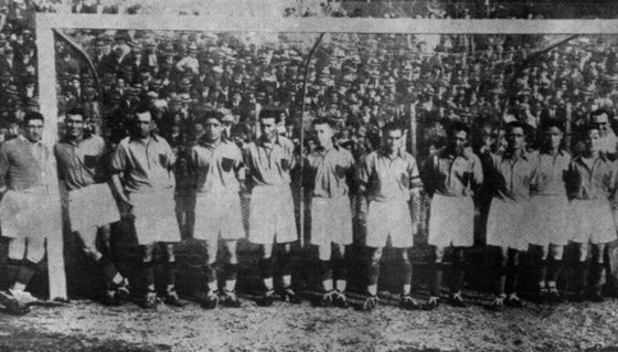 The Central Córdoba football team that won the Copa Adrián Beccar Varela. The final vs. Racing Club was played in 1934 and Racing players abandoned the field before the match ended. Therefore, the Association crowned Central Córdoba as champion. Players are: Funes, Collins, Bussolini, Garramendi, Ibarra, Bussano, D'uva, Sosa, Morales, Solero, Constantini.